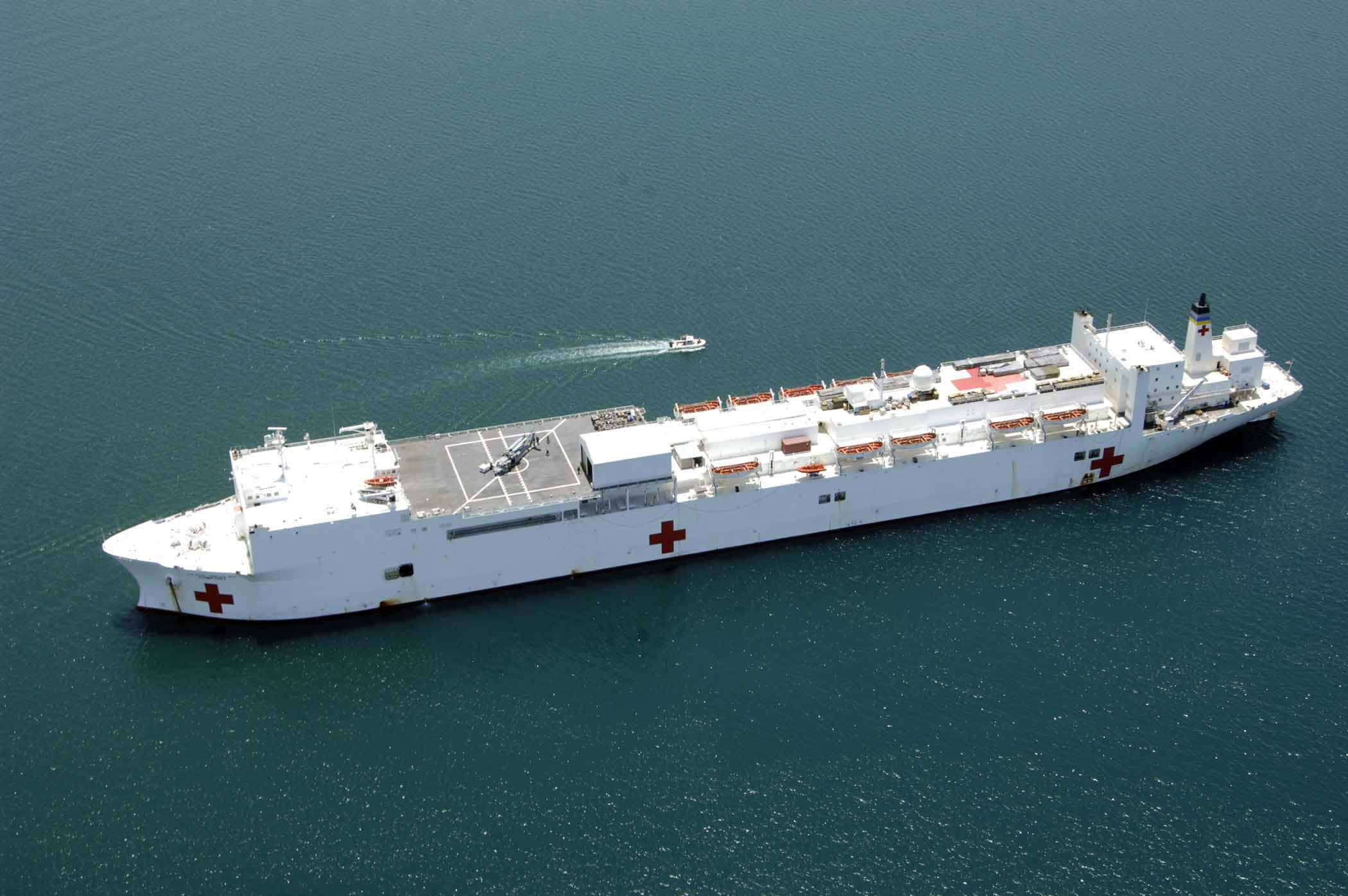 090411-A-1786S-088 PORT-AU-PRINCE (April 11, 2009) The Military Sealift Command hospital ship USNS Comfort (T-AH 20) is anchored near Port-au-Prince supporting Continuing Promise 2009, a humanitarian and civic assistance mission to Latin America and the Caribbean. (U.S. Army photo by Spc. Landon Stephenson/Released)